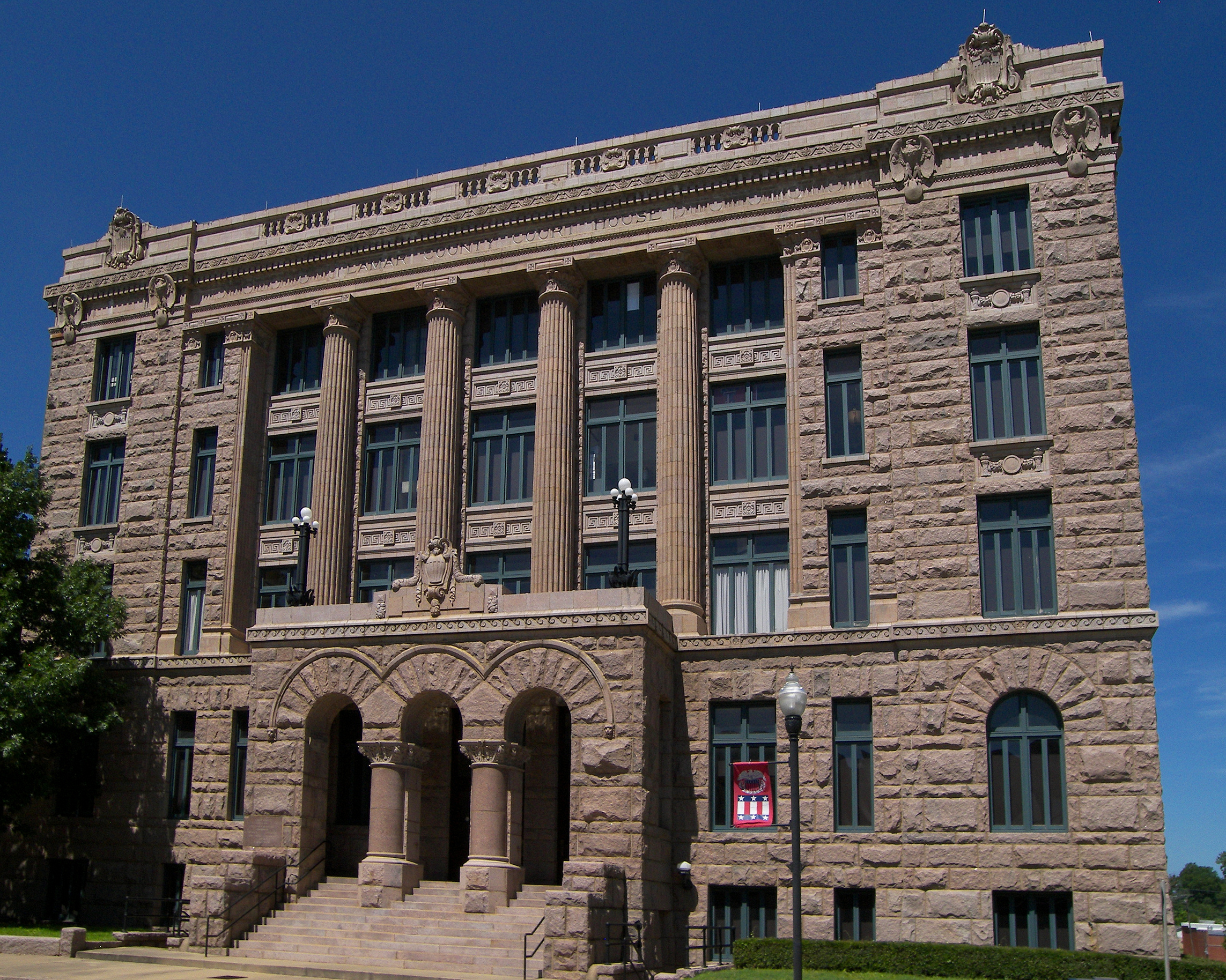 The Lamar County Courthouse located in Paris, Texas, United States. The courthouse was designated a Recorded Texas Historic Landmark in 2000.